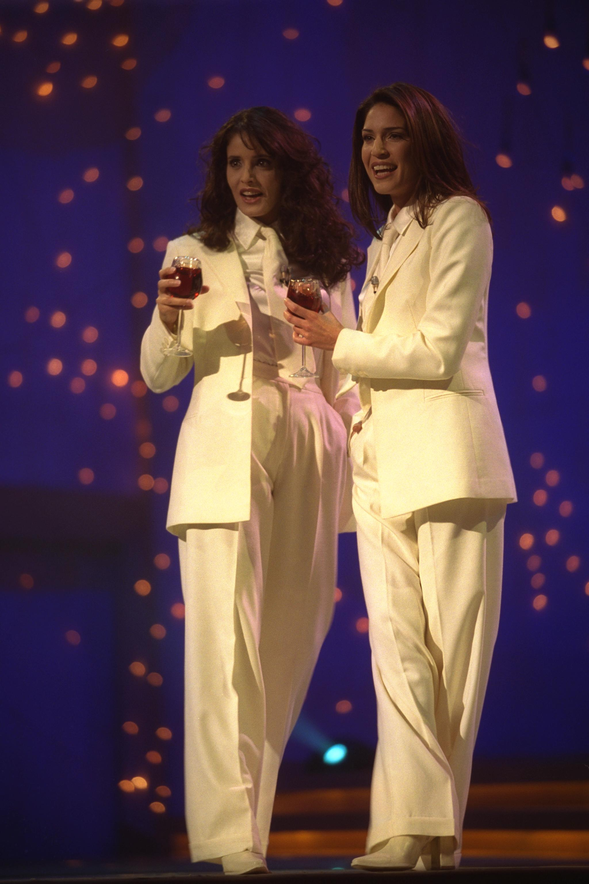 Two of the presenters of the "1999 Eurovision" song contest, held at "Binyanei Hauma" in Jerusalem. on the l, Dafna Dekel & Sigal Shachmon on the r.